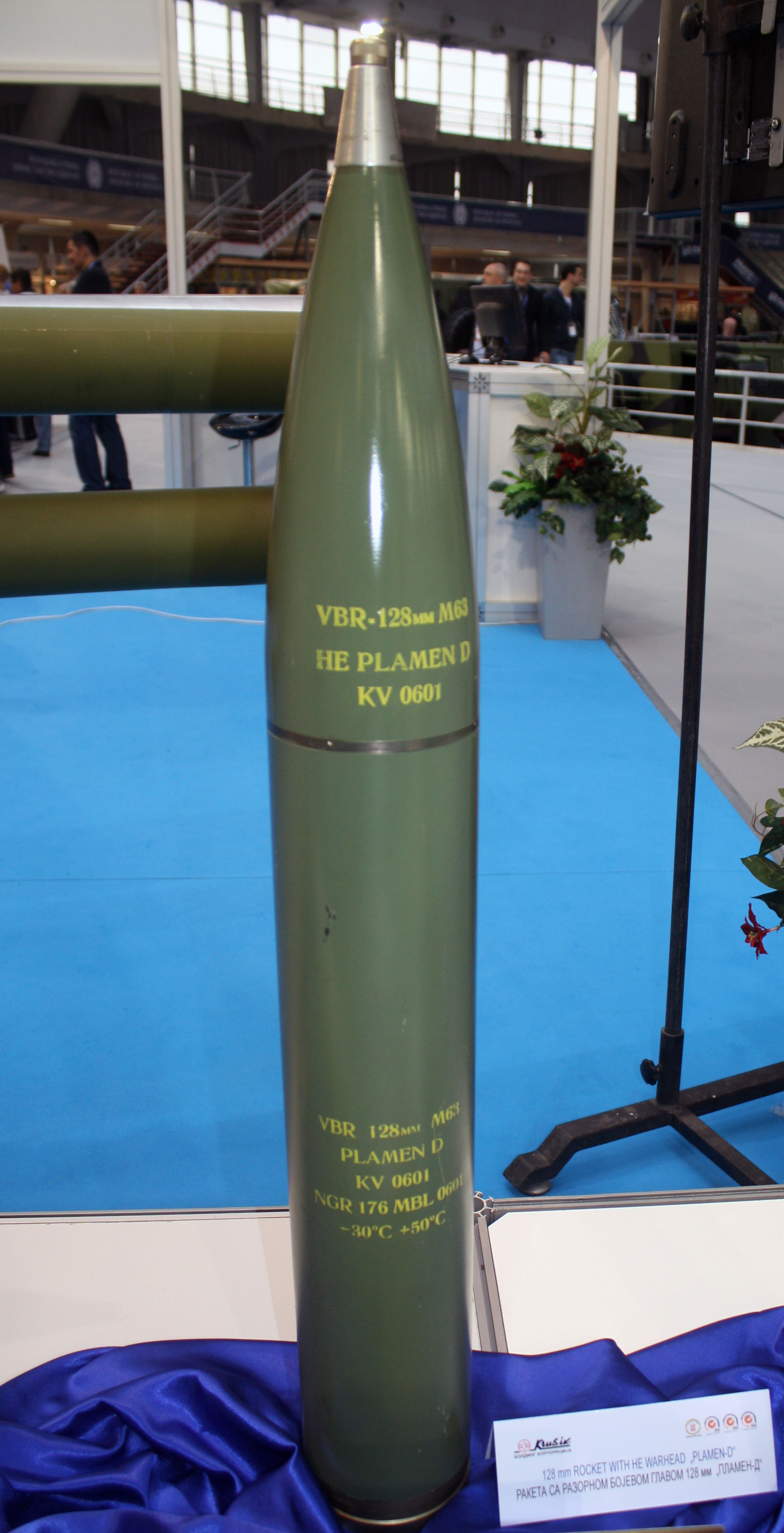 Plamen-D 128mm rocket on display at "Partner 2015" military fair.